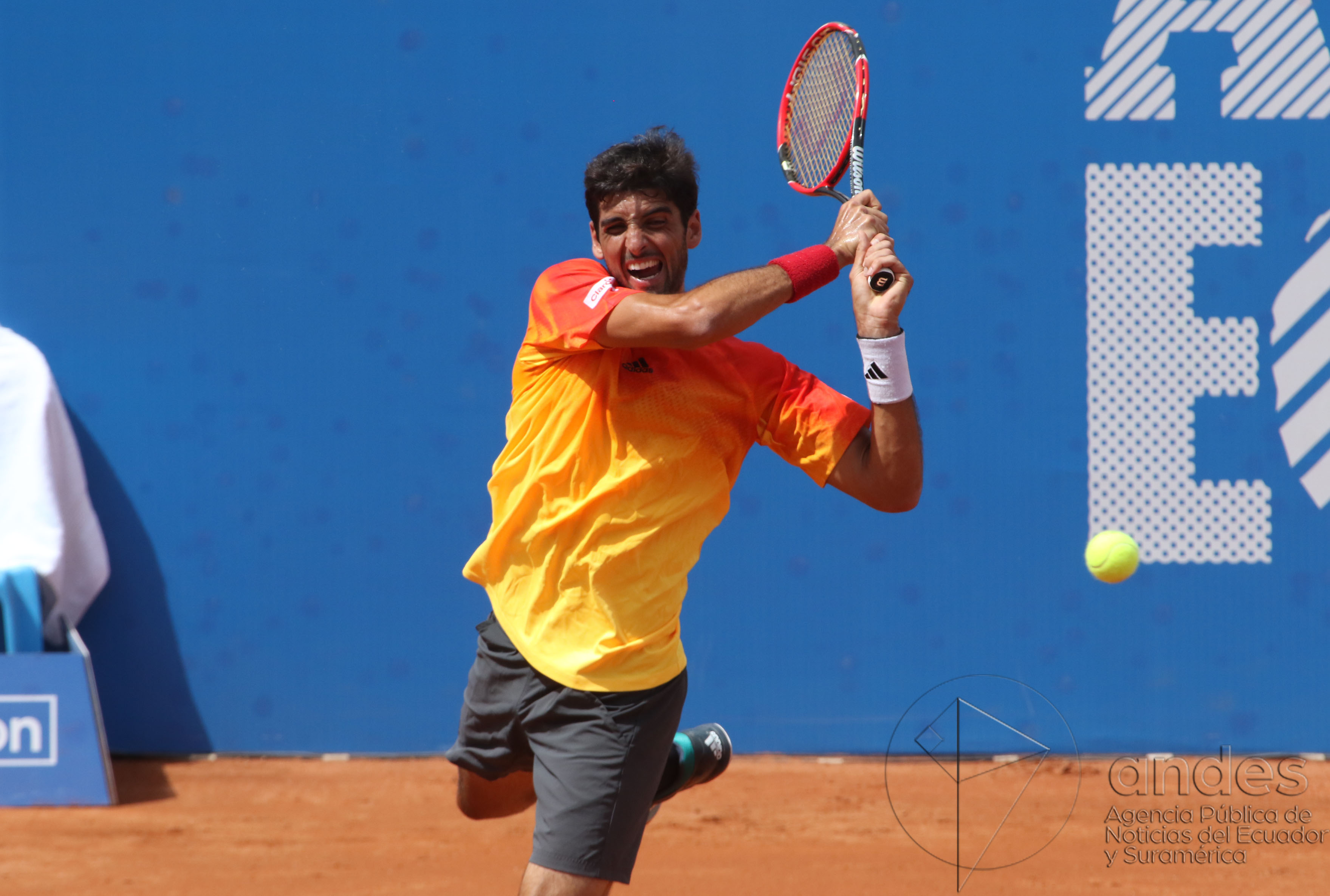 2016 Ecuador Open Quito Final: Víctor Estrella Burgos vs. Thomaz Bellucci.